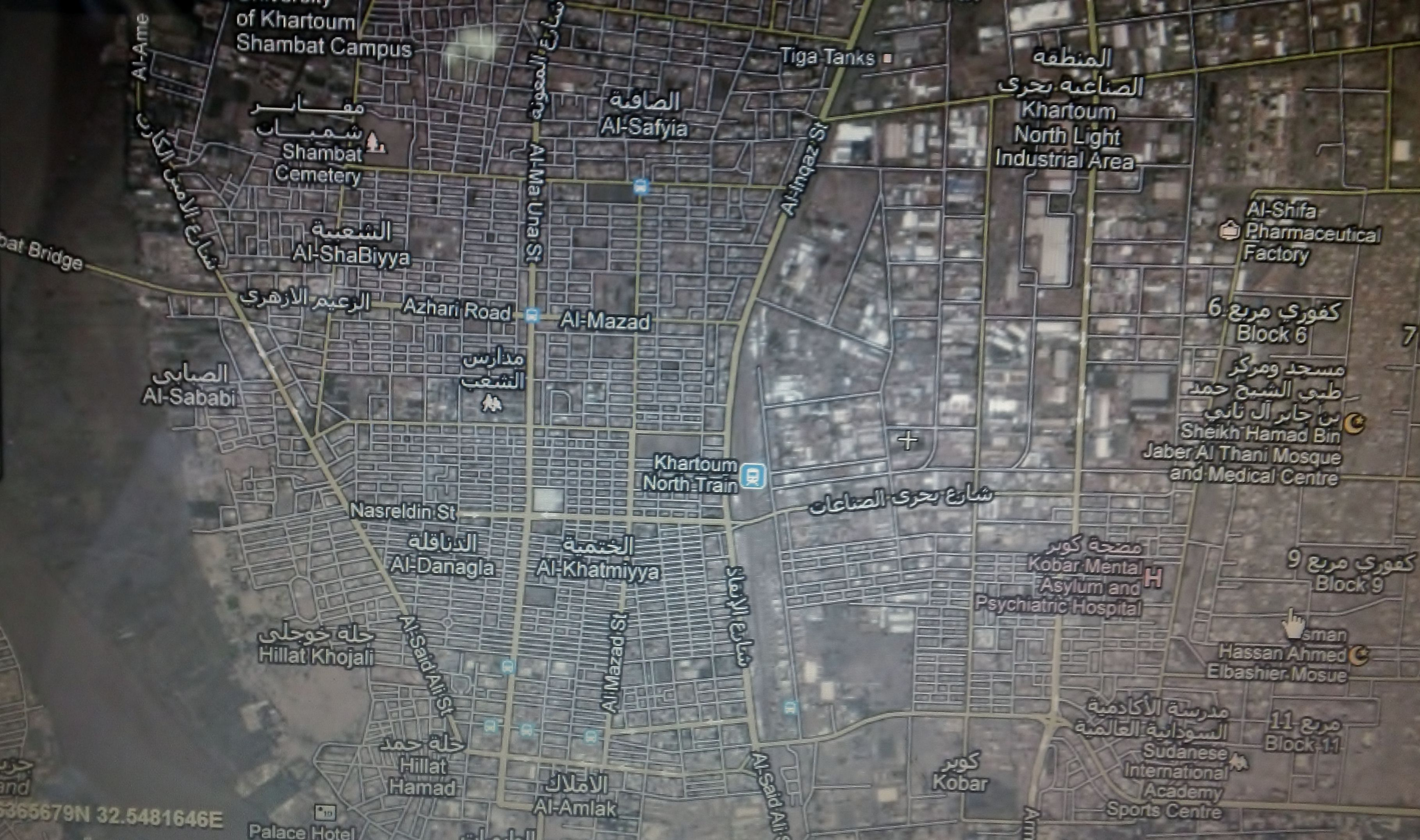 Sudan-Khartoum Bahri- areas